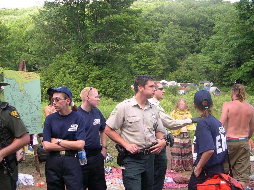 Police and some medics at the WV rainbow gathering in 2005. Rainbow girl's face is blurred in respect of Rainbow traditions and wishes for anonymity unless permission is granted to photograph.